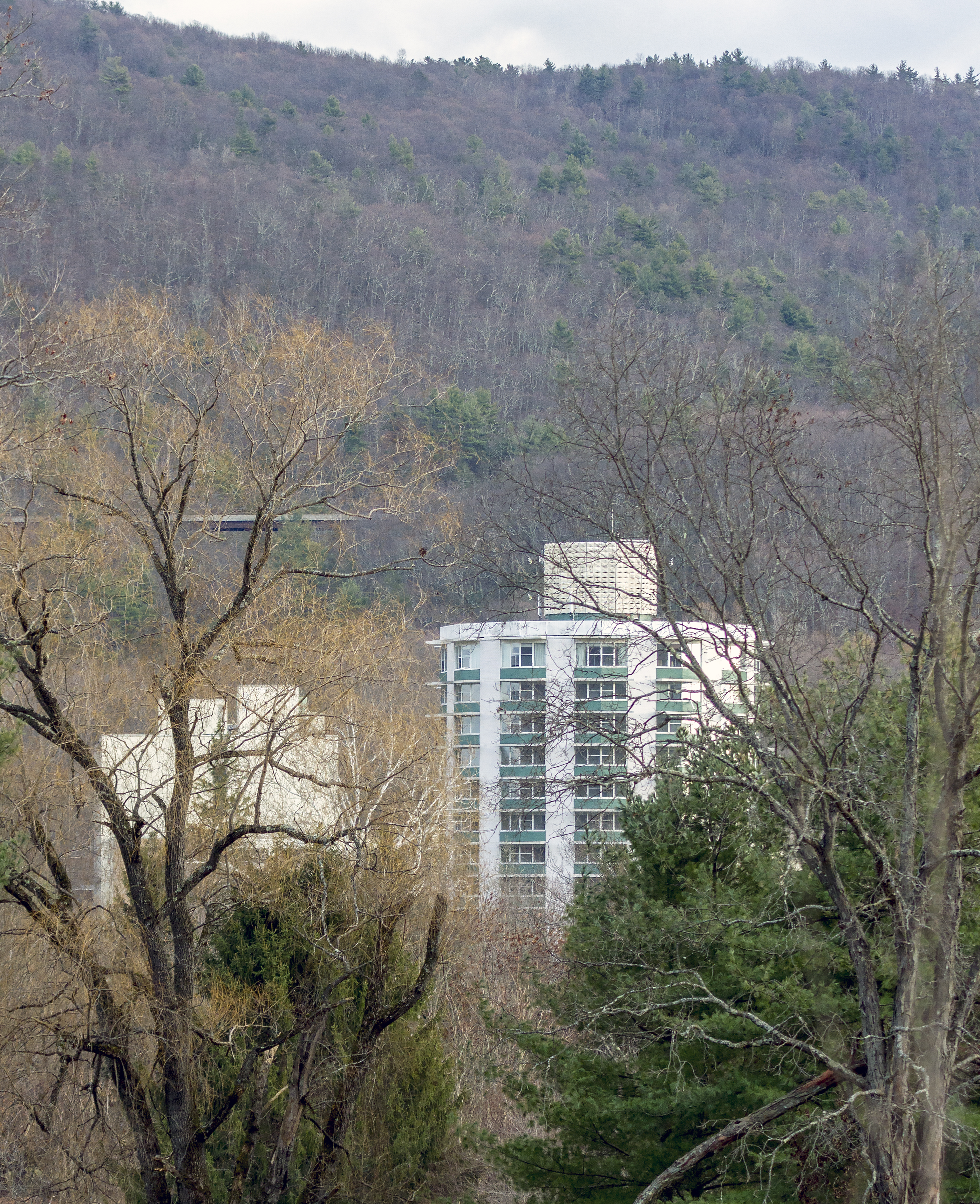 The Nevele Resort hotel tower, near Ellenville, New York, USA